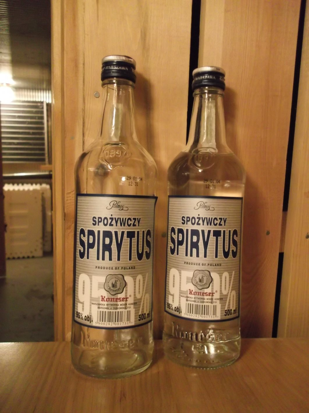 Polish 95% Spiritus fortis-bottles